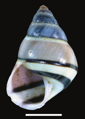 Photo of an apertural view of a shell Amphidromus xiengkhaungensis. Holotype (CUMZ 7045) The cale bar is 10 mm.